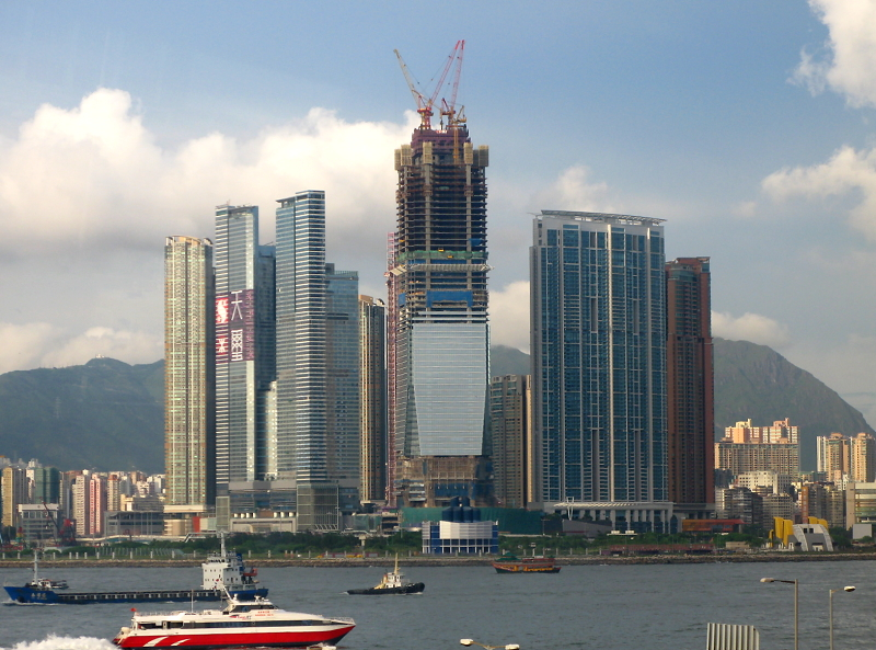 HK Union Square in summer 2007